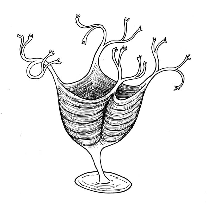 Reconstruction of the Ediacaran cnidarian Haootia quadriformis from Precambrian Canada